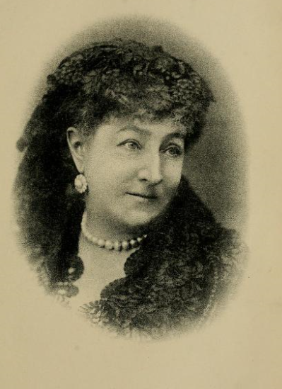 The spiritualist Countess of Caithness.